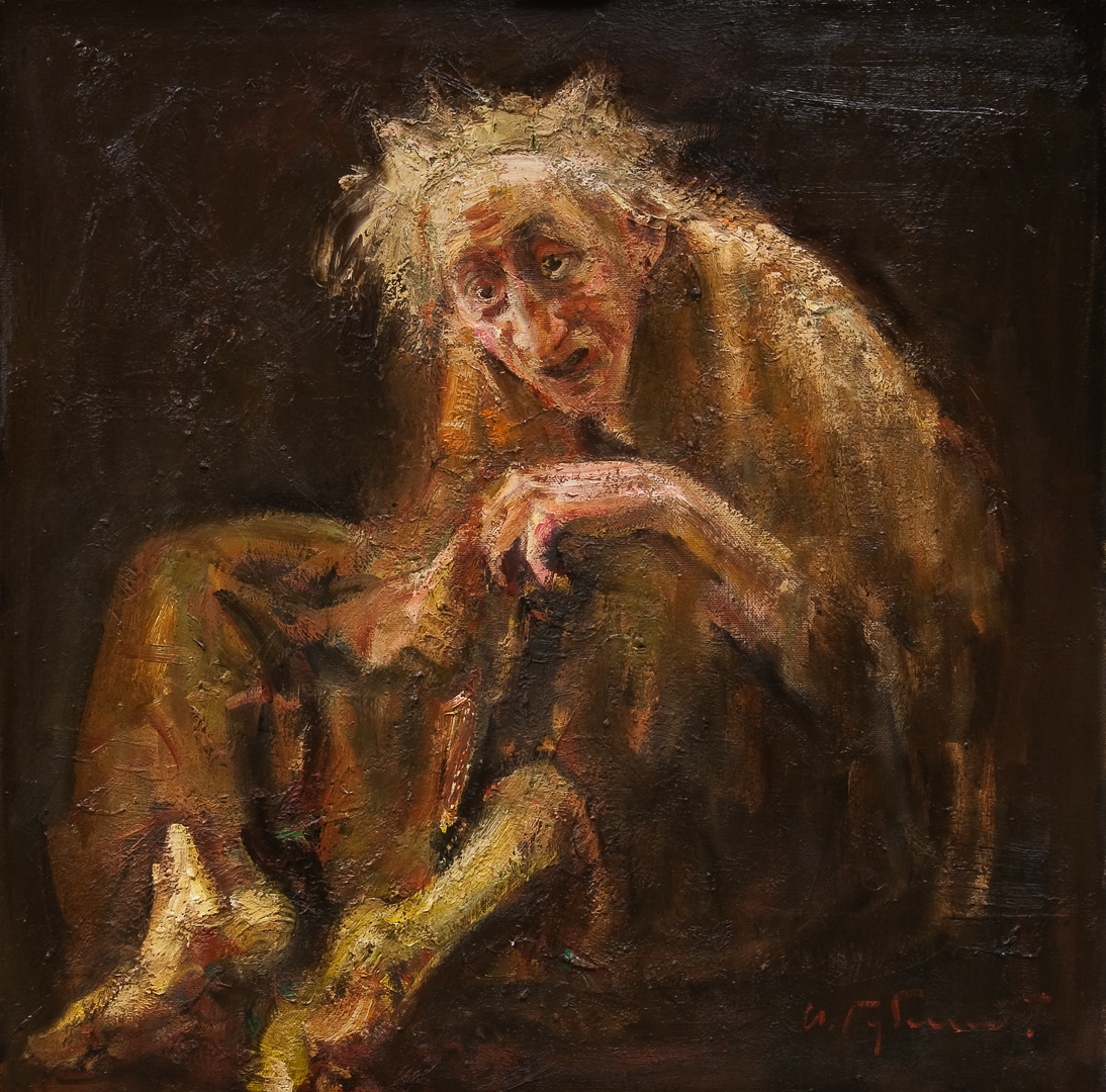 Igor Gubskiy artwork - Old woman. 2009.100x100. Canvas, oil.